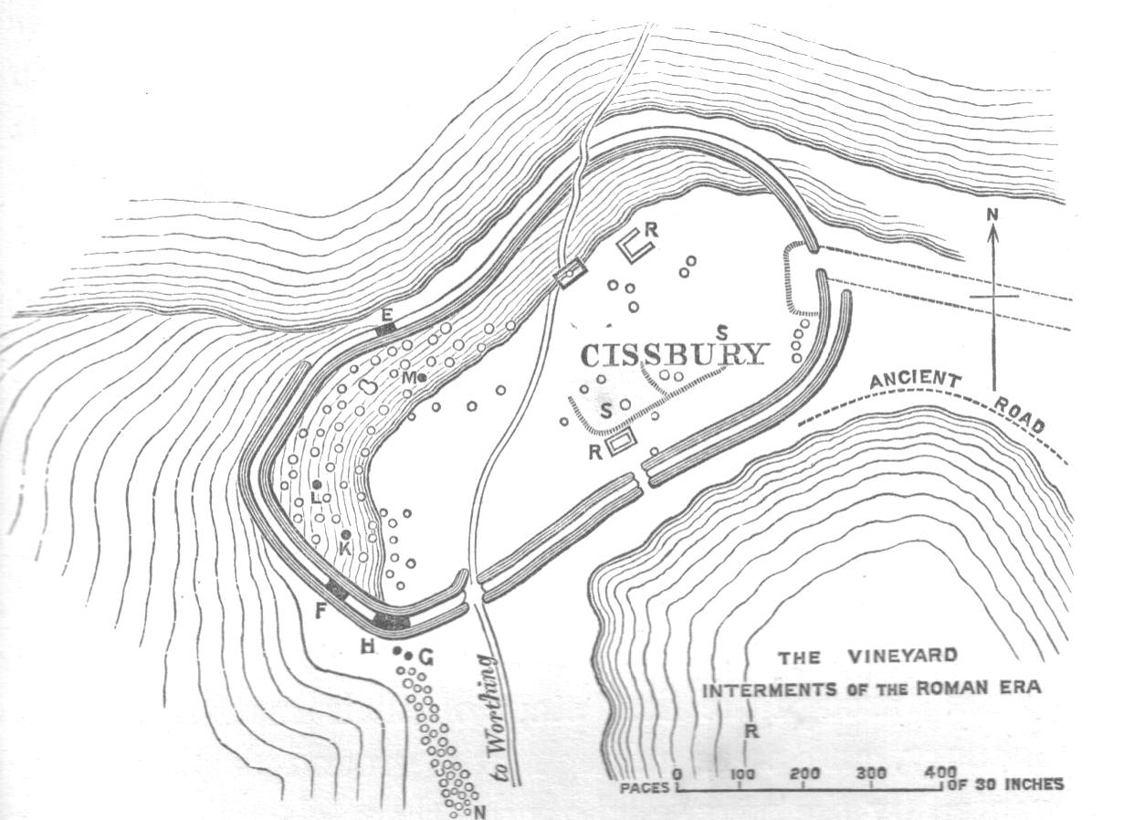 Cissbury Ring - scan of very old print